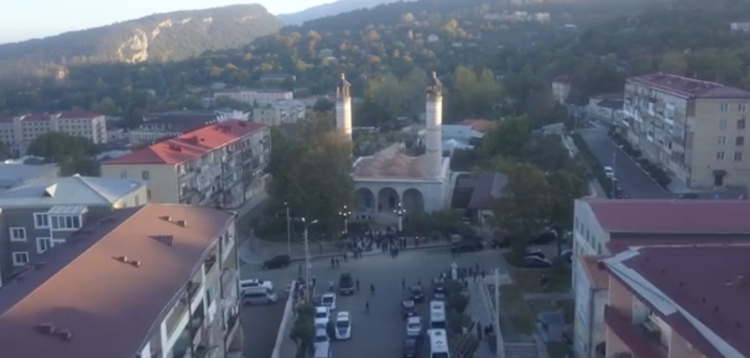 The mosque in 2019